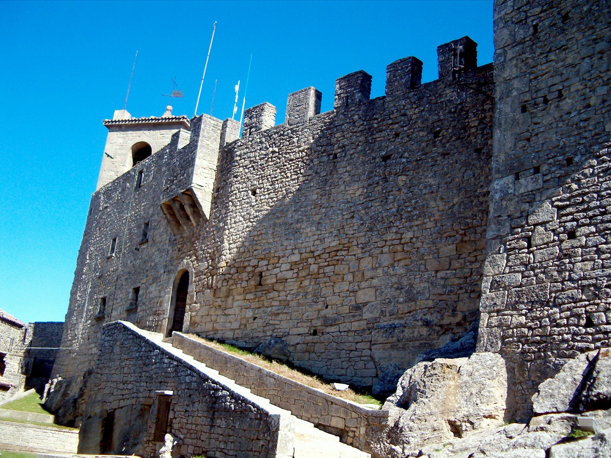 Walls of San Marino Castle, Republic of San Marino.